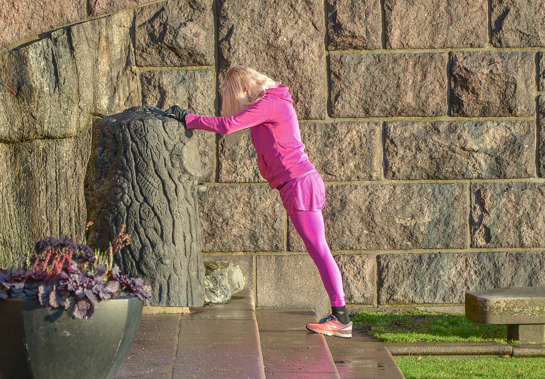 Stretching during an exercise session in the city hall garden in Stockholm.